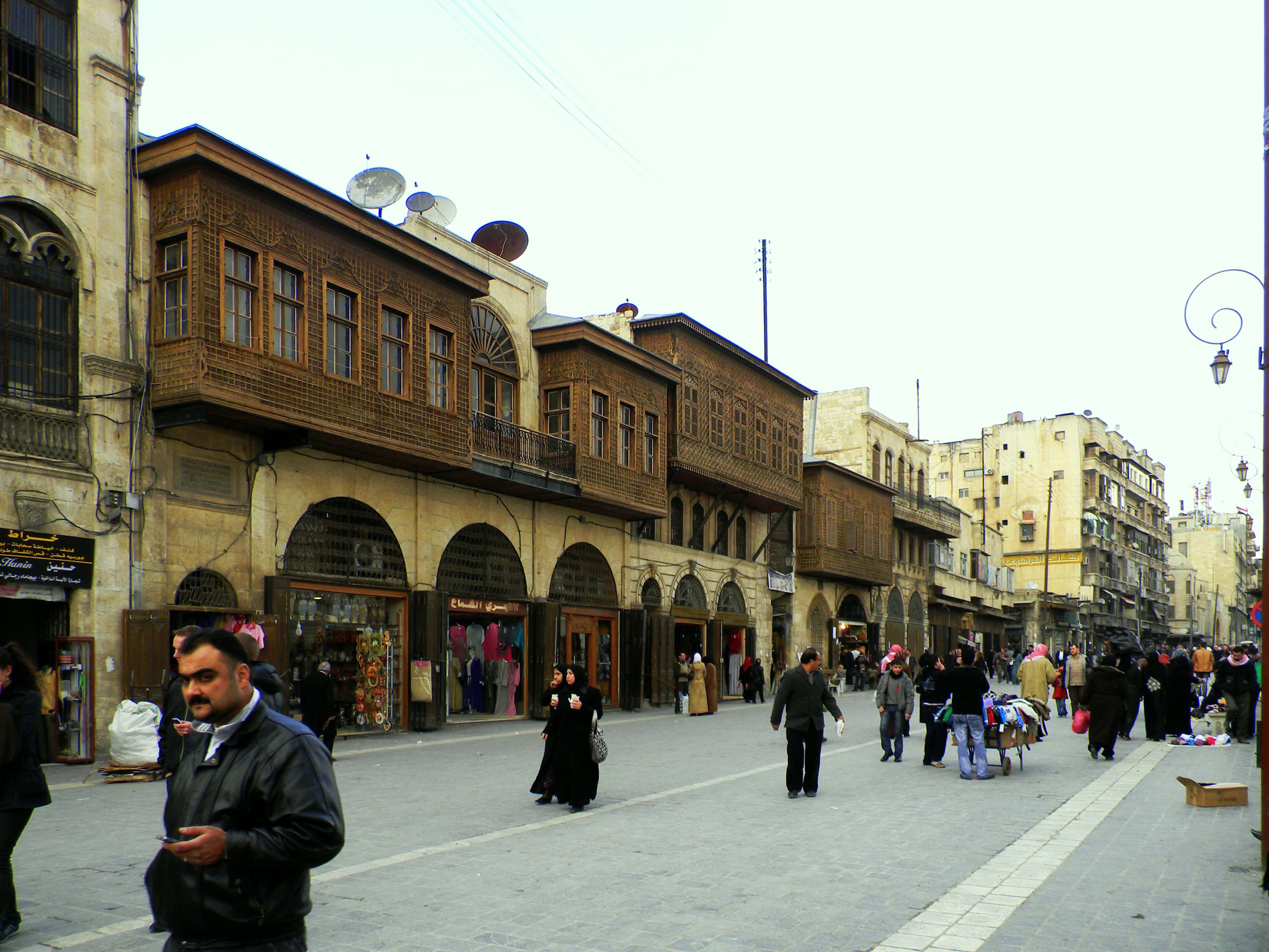 Aleppo suq